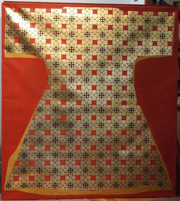 Cămașa lui Hristos (Silviu Oravitzan)